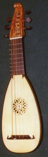 Modern reproduction of the 1640 Bossart mandore (held by the Victoria and Albert Museum). The luthier was Carlos Gonzales Marcos.